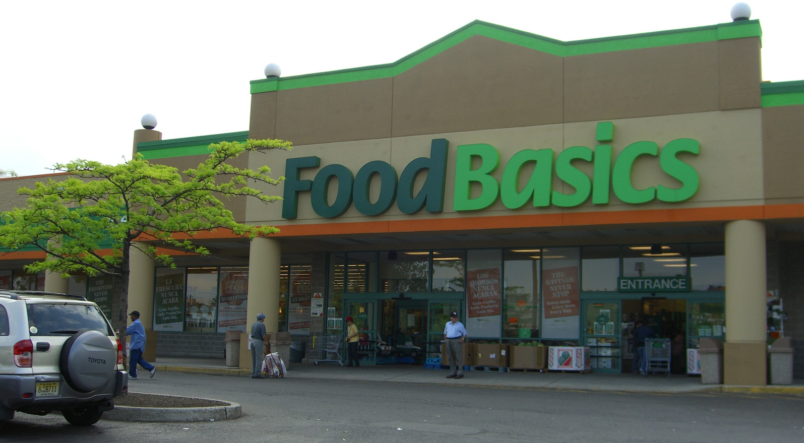 The Food Basics supermarket in North Bergen, New Jersey. This photo was created by Luigi Novi. It is not in the public domain, and use of this file outside of the licensing terms is a copyright violation.